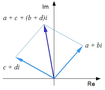 Complex addition